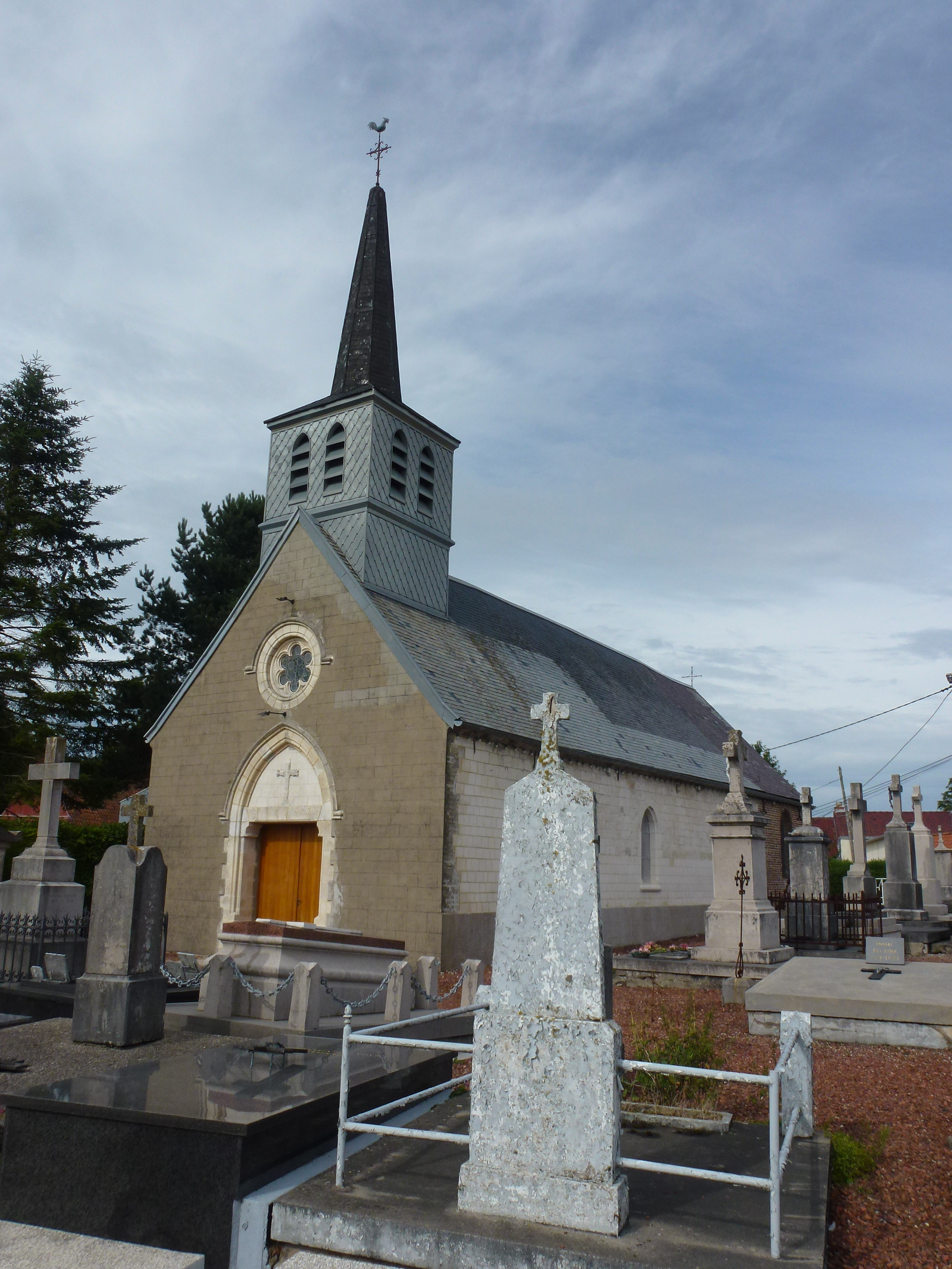 Rodelinghem (Pas-de-Calais) église Saint-Michel